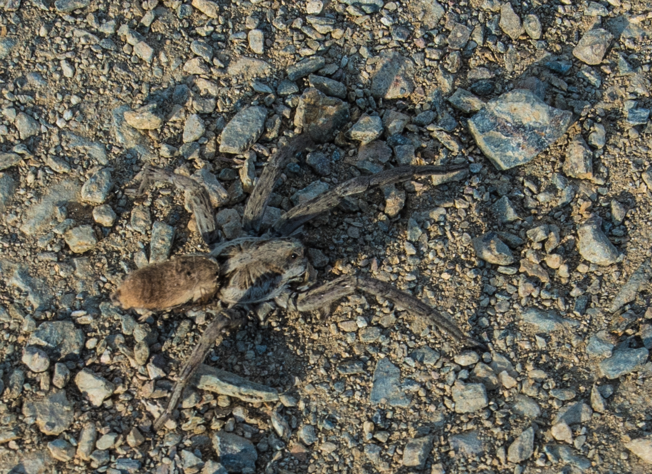 Hogna radiata radiata (False Tarantula).